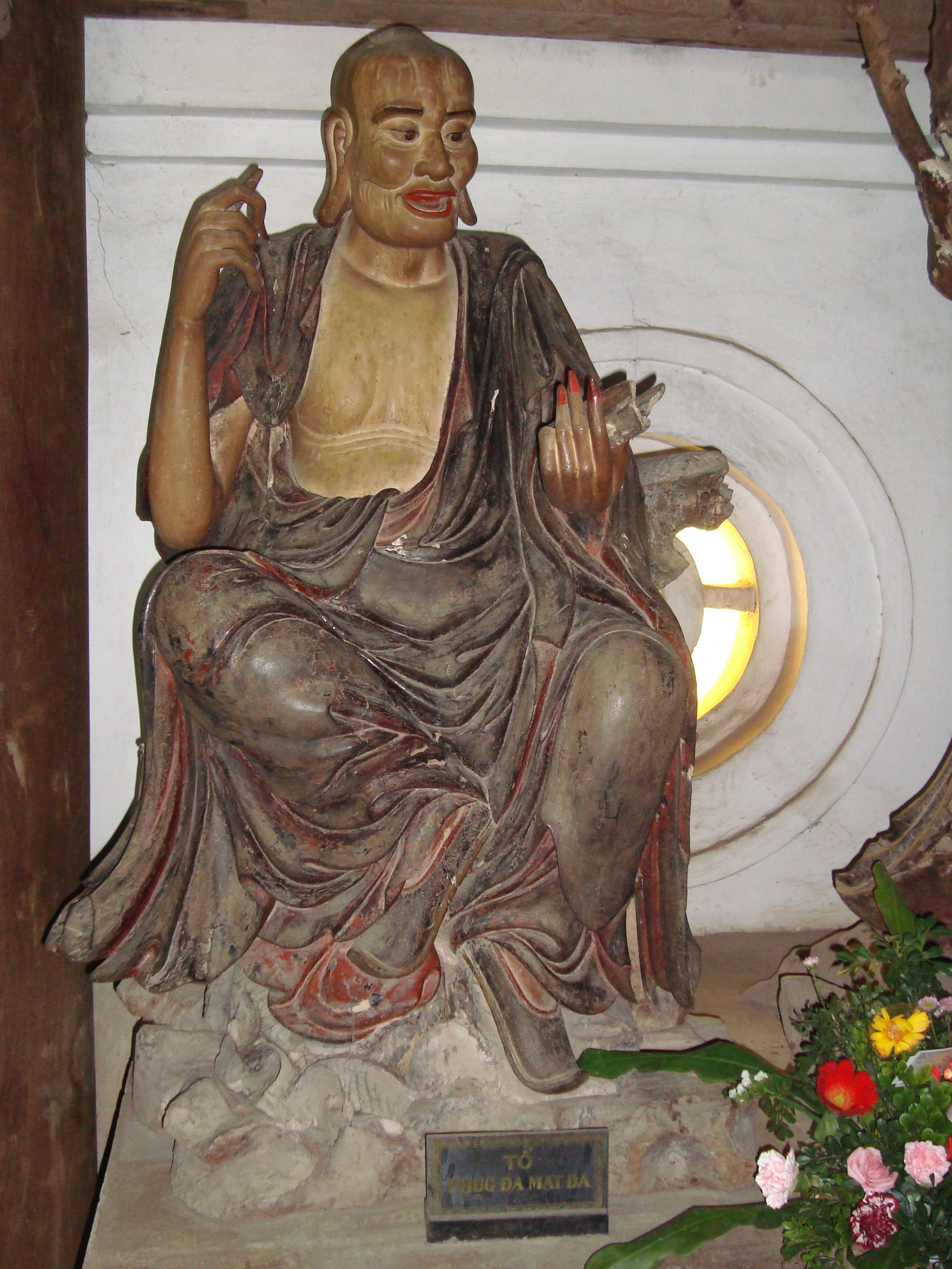 One of the eighteen arhat statues at Tây Phương Buddhist Temple, Thạch Thất District, Hanoi, Vietnam.